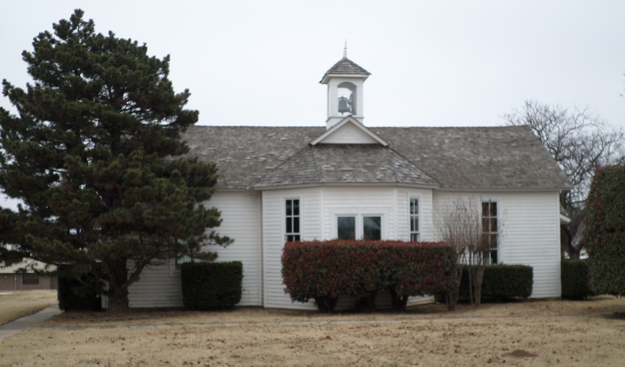 Shawnee Friends Mission, located in the Absentee Shawnee Tribe headquarters along S. Gordon Cooper Dr. near Shawnee, Oklahoma. The building is listed on the National Register of Historic Places.